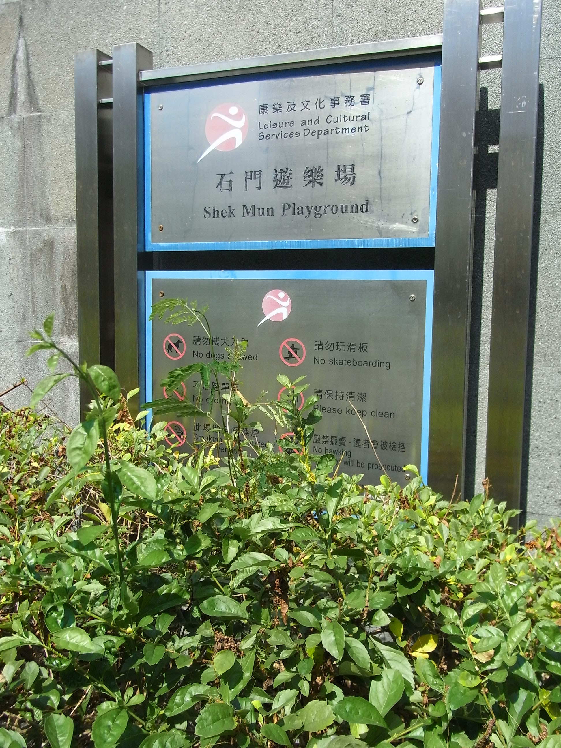 沙田 石門, Shek Mun, Hong Kong